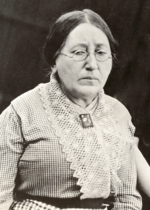 Josephine Crowell from a Majestic Motion Picture Company scene still, 1914.